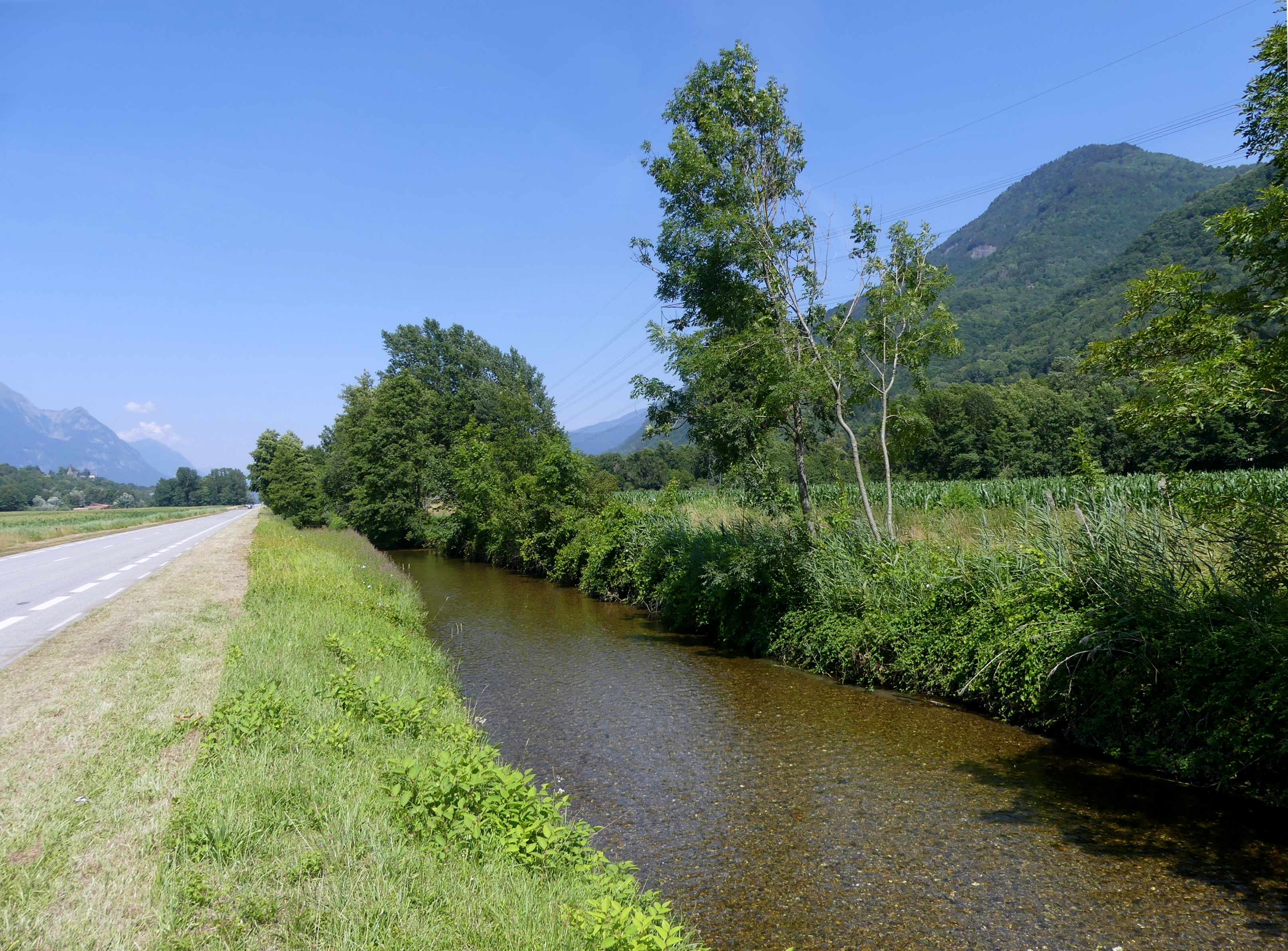 Sight of the Gelon river along the Route départementale 925 road in the direction of Chamoux-sur-Gelon and its mouth into Isère river, in Villard-Léger, Savoie, France.